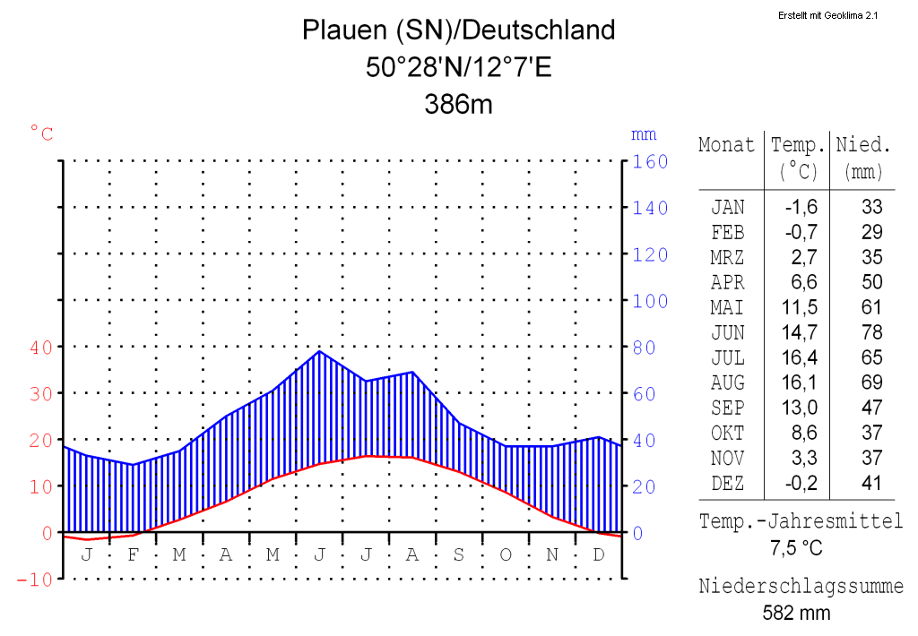 climate chart in the format by Walter and Lieth, metric, °Celsisus and millimeters, made with Geoklima 2.1